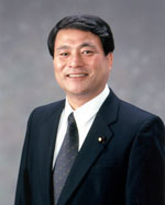 Akira Gunji was inaugurated as Senior Vice-Minister of Agriculture, Forestry and Fisheries on September, 2009. (For terms of use, see リンク、著作権等について | 首相官邸ホームページ.)